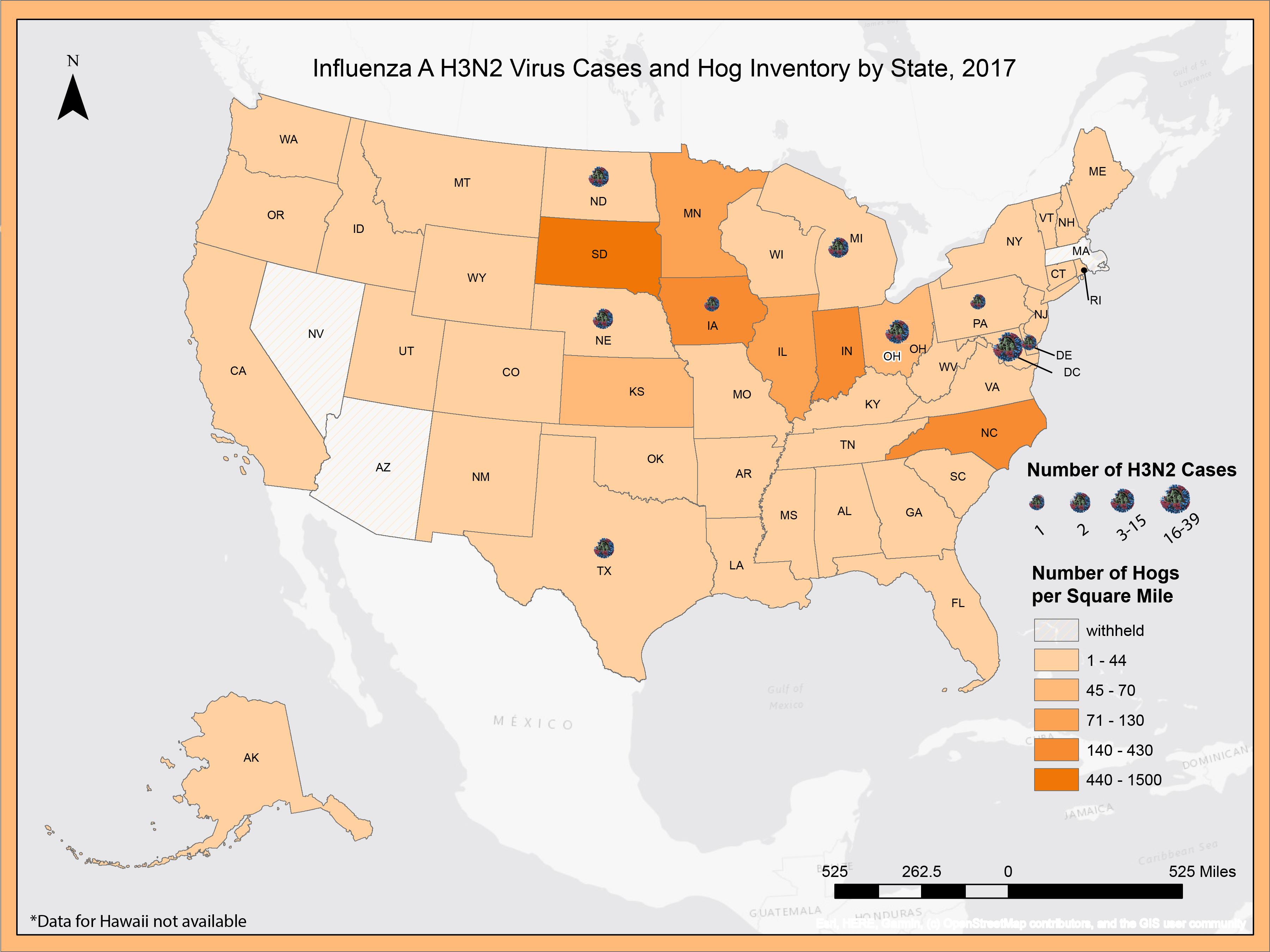 The geographic distribution of Influenza A H3N2 virus cases by state in the United States in 2017, and the number of hogs (pigs) in the United States by state in 2017. The number of influenza cases was obtained from the Centers for Disease Control and Prevention (CDC). The number of pigs is obtained from the 2017 Census of Agriculture, United States Department of Agriculture National Agricultural Services.